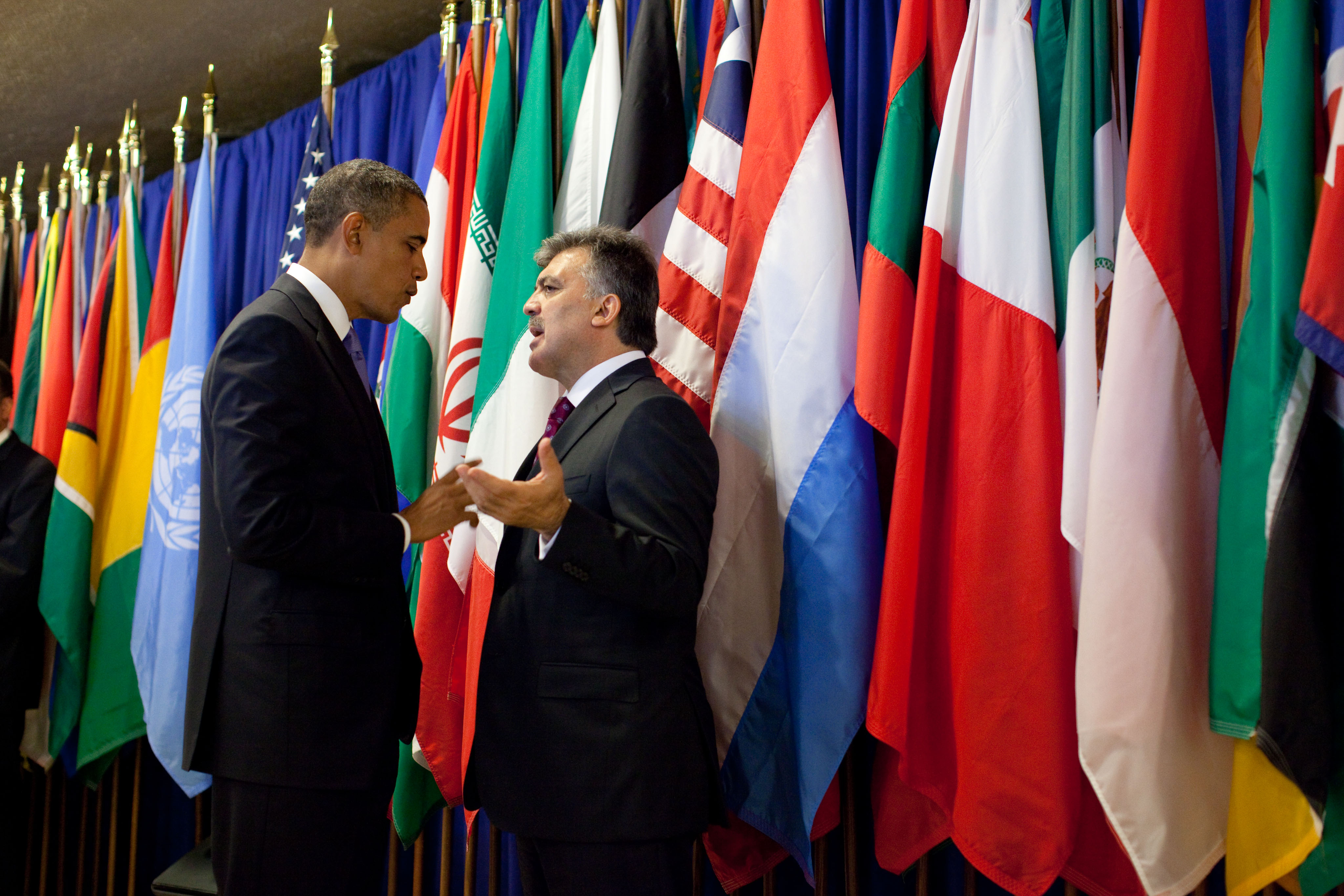 President Barack Obama talks with Turkish President Abdullah Gül at a luncheon hosted by U.N. Secretary Ban Ki-Moon at the United Nations, New York, N. Y., Sept. 23, 2010.(Official White House Photo by Pete Souza) This official White House photograph is in the public domain from a copyright perspective, so while restrictions such as personality or privacy rights may apply, in general, manipulations are allowed.